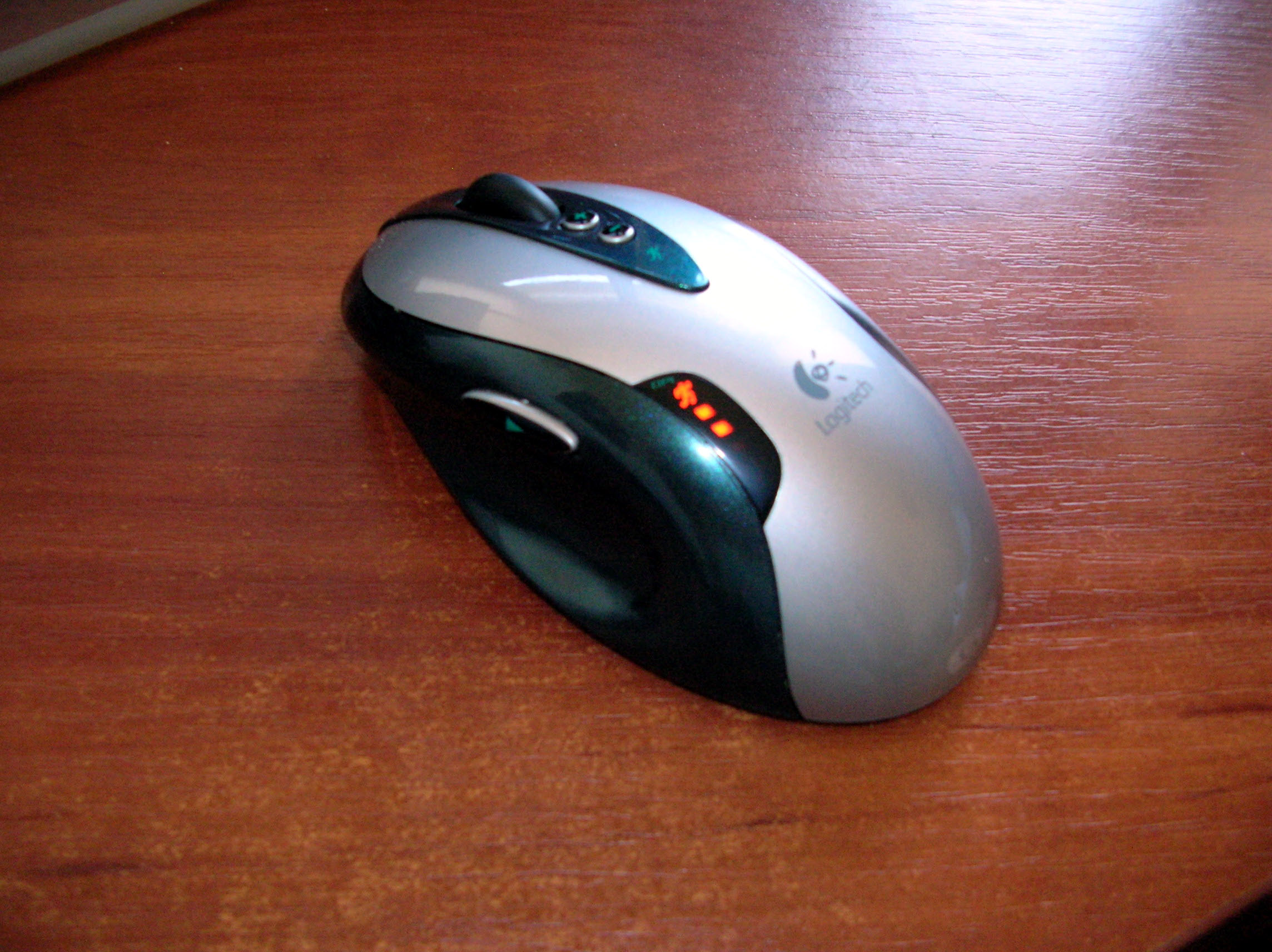 Logitech G7 mouse